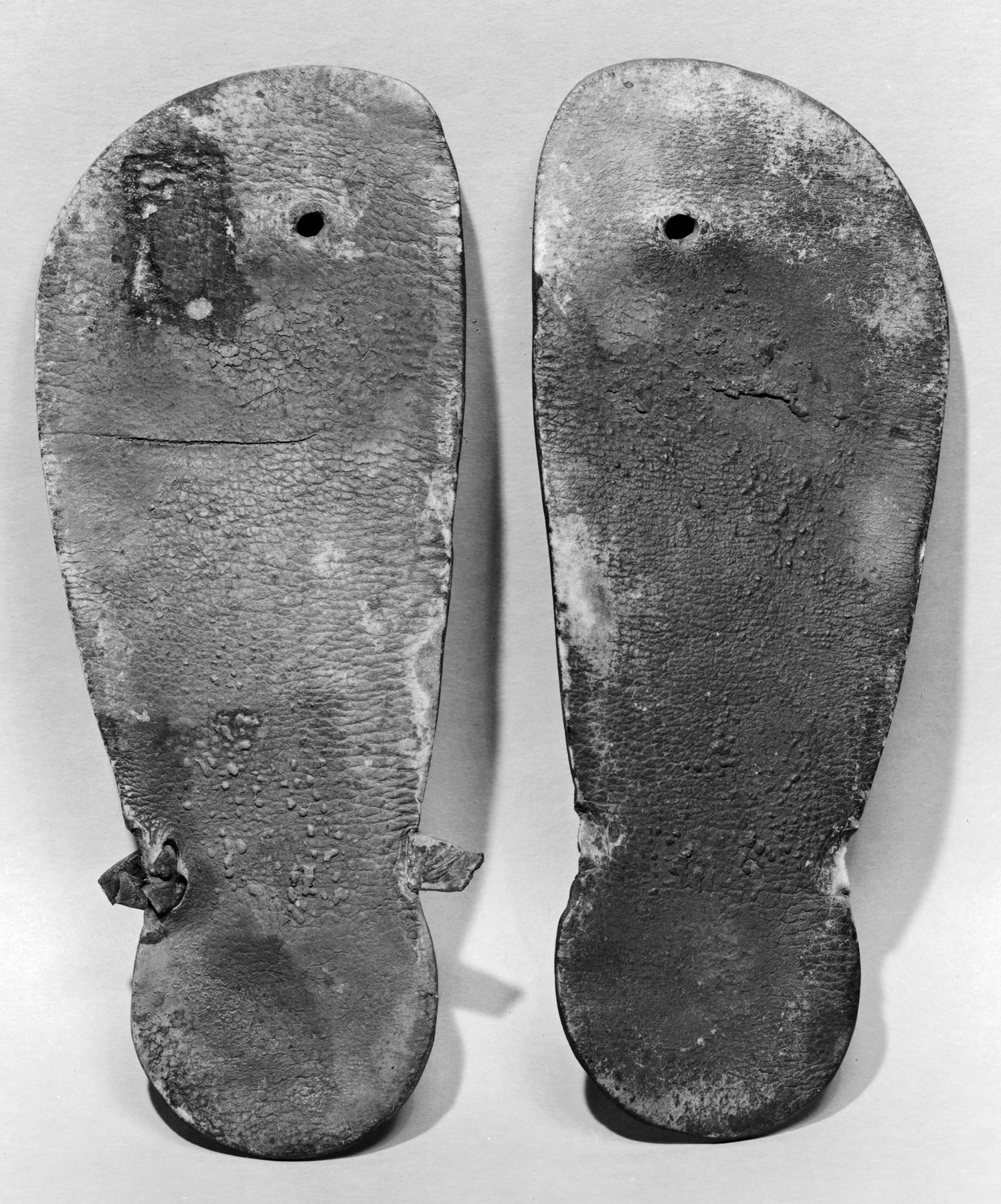 This is a pair of leather sandal soles. Each sole consists of a single piece of cut leather. There are fine cracks and some areas of discoloration on the reddish-brown leather, but generally it is in a good state of preservation. The sandals appear to have been worn during life because there are signs of wear on the bottoms and there are molded impressions of the heal, toes and the ball of the foot on the upper surface. There is a round hole punched into each sole for the attachment of a thong between the first and second toes. Leather ankle straps secured the back of the sandal. Complete examples in the Museum of Fine Arts have a strap that completely encircles the ankle heel. On the right sole only an indentation on each side marks the location of the sandal strap. On the left sole a small section of the original strap remains on the right edge and this strap was part of the same piece of leather as the sole. On the left edge we have evidence of a repair, which is also an indication of daily life use. Two holes were punched into the edge of the sole and a new strap was fixed into place by leather thongs. Only a short length of this new strap remains in place. There is a rectangular area of discoloration on the upper surface of the left sole near the toe area.